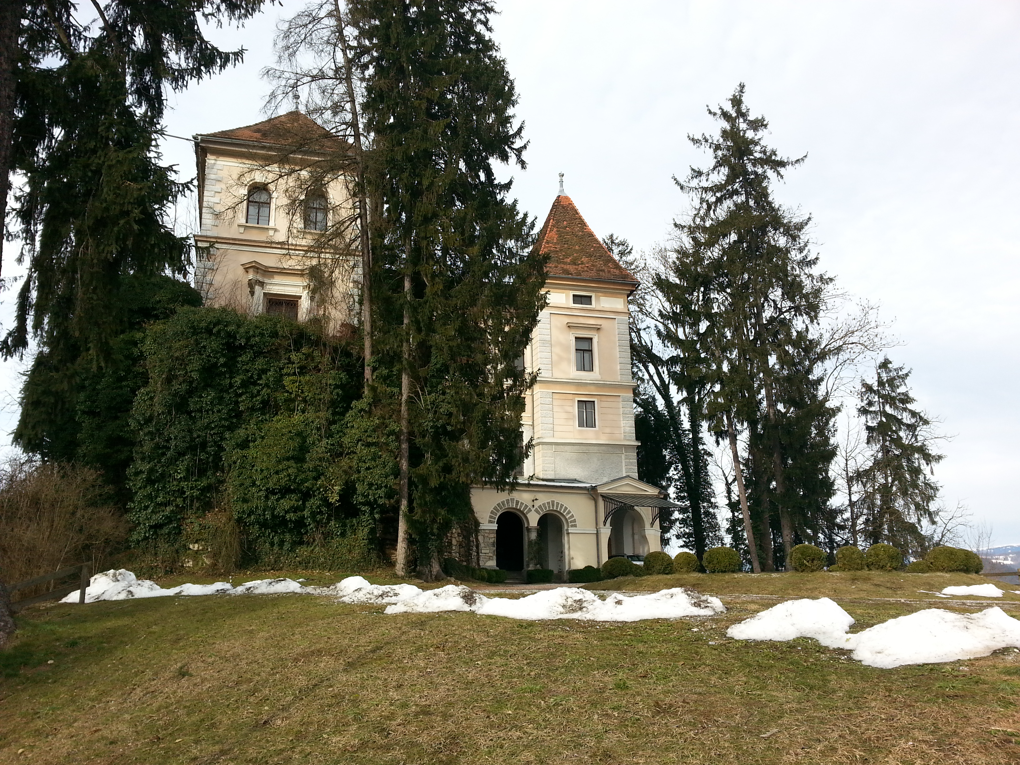 The Schloss Greißengg in Voitsberg, Styria, Austria